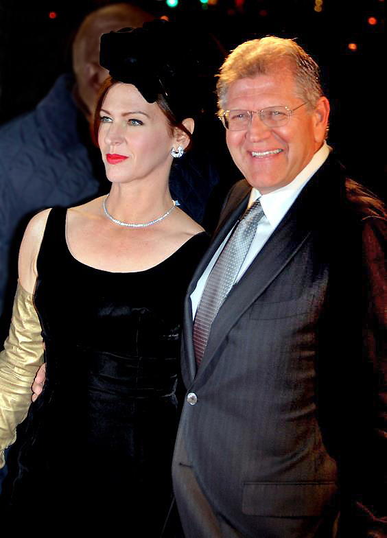 Robert Zemeckis and wife Leslie Harter in Paris at the French premiere of "Flight"